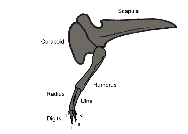 Diagram of the forelimb of the herbivorous ceratosaur Limusaurus inextricabilis, showing characteristic mesomelia and hypophalangia. Referenced from Guinard, G. (2016). "Limusaurus inextricabilis (Theropoda: Ceratosauria) gives a hand to evolutionary teratology: a complementary view on avian manual digits identities". Zoological Journal of the Linnean Society 176 (3): 674–685.